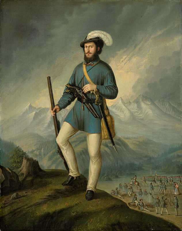 Cpt. Ján Francisci with Slovak volunteers on Myjava during Slovak Uprising of 1848-49